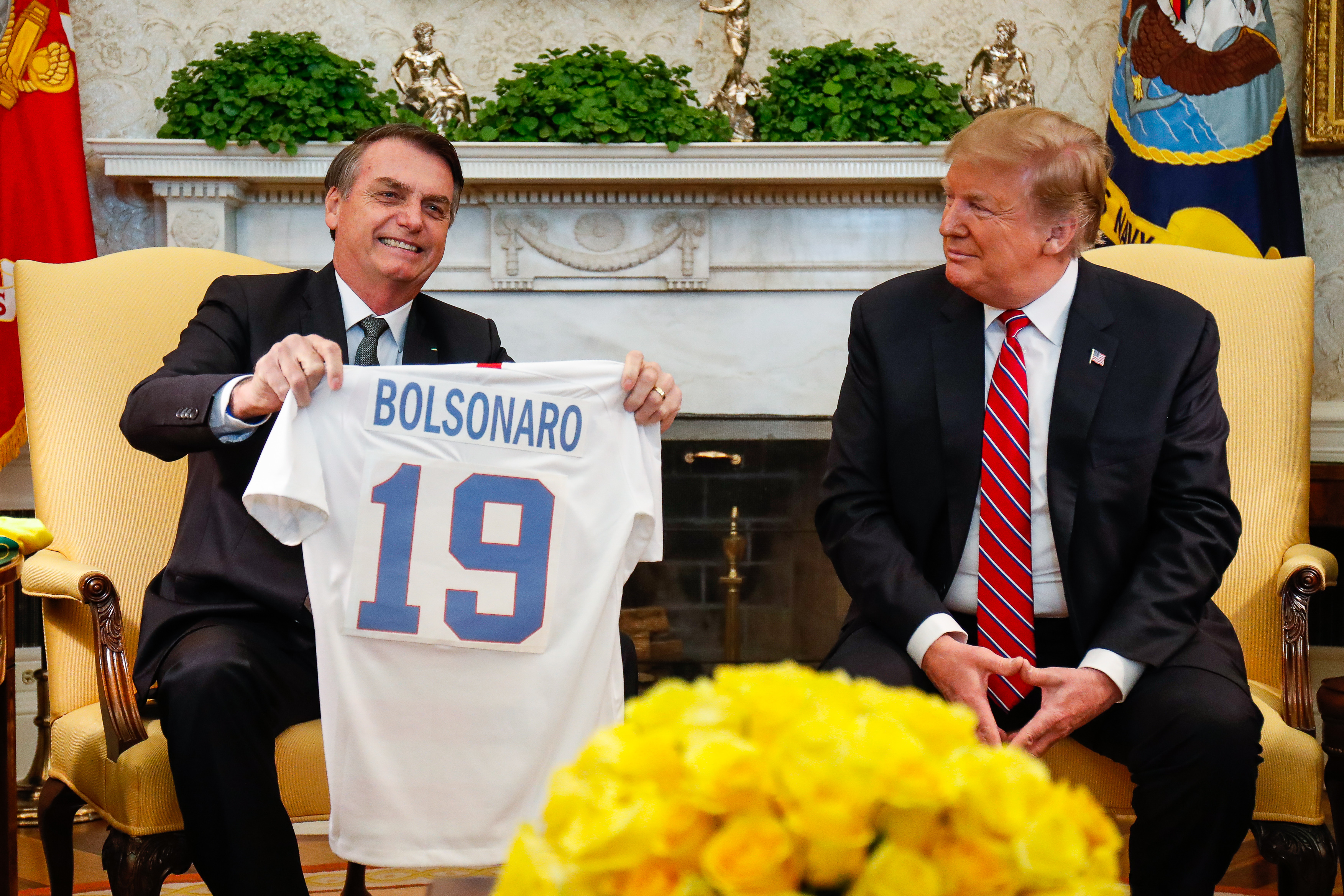 (Washington, DC - EUA 19/03/2019) O Senhor Donald Trump, Presidente dos Estados Unidos da América, entrega uma camisa personalizada, simbolizando o esporte nacional, ao Presidente da República Jair Bolsonaro. Foto: Alan Santos/PR